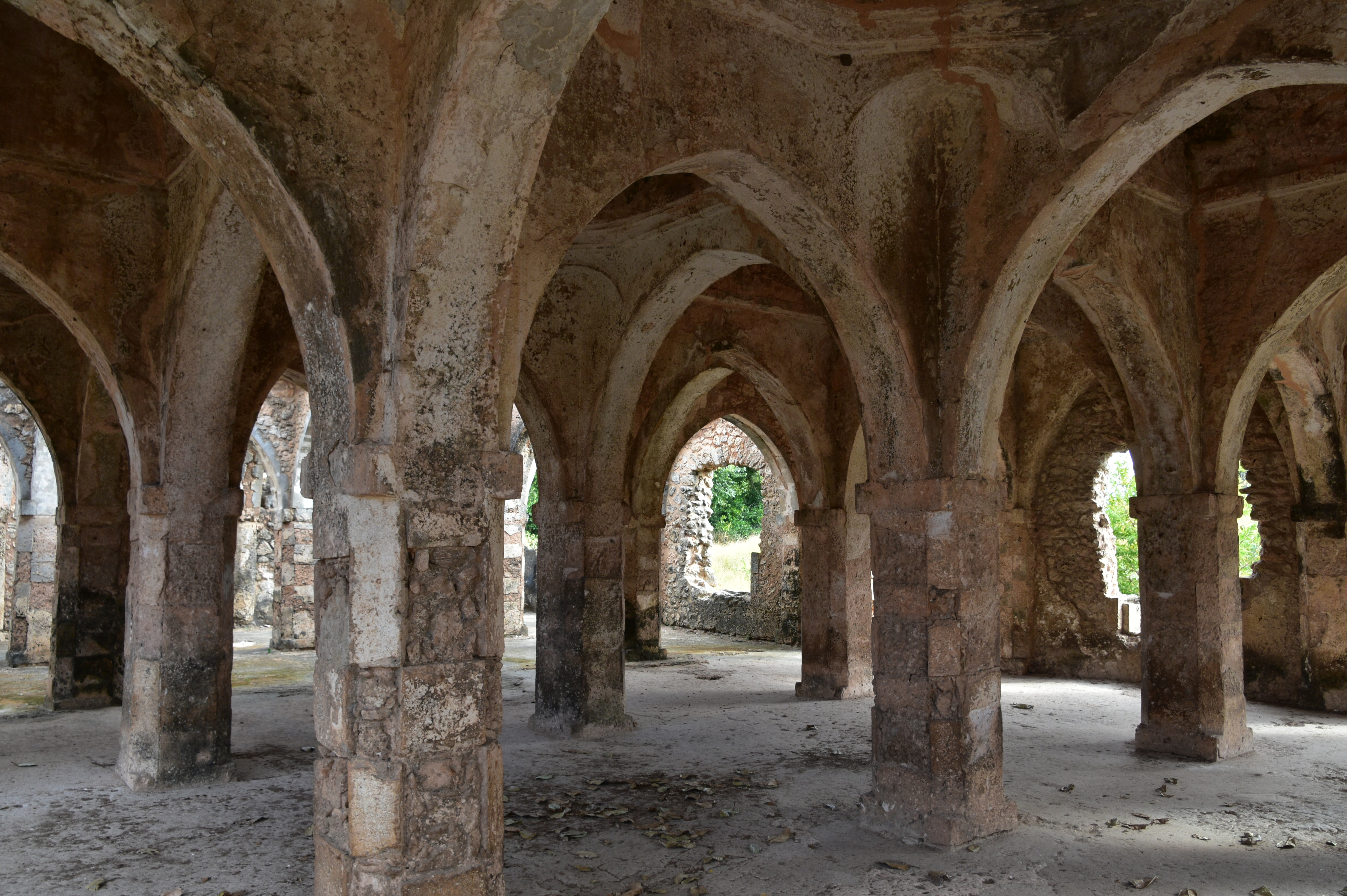 Great Mosque of Kilwa Kisiwani, 11th - 18th cents (16)